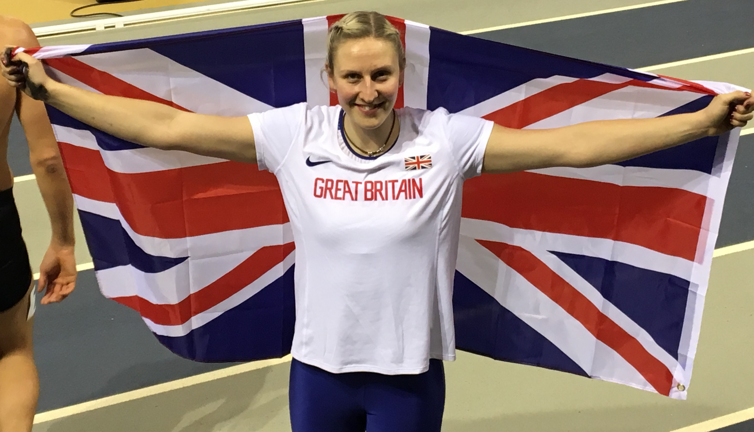 Holly Bradshaw. Silver medalist at European Indoors Champs, Glasgow March 2019